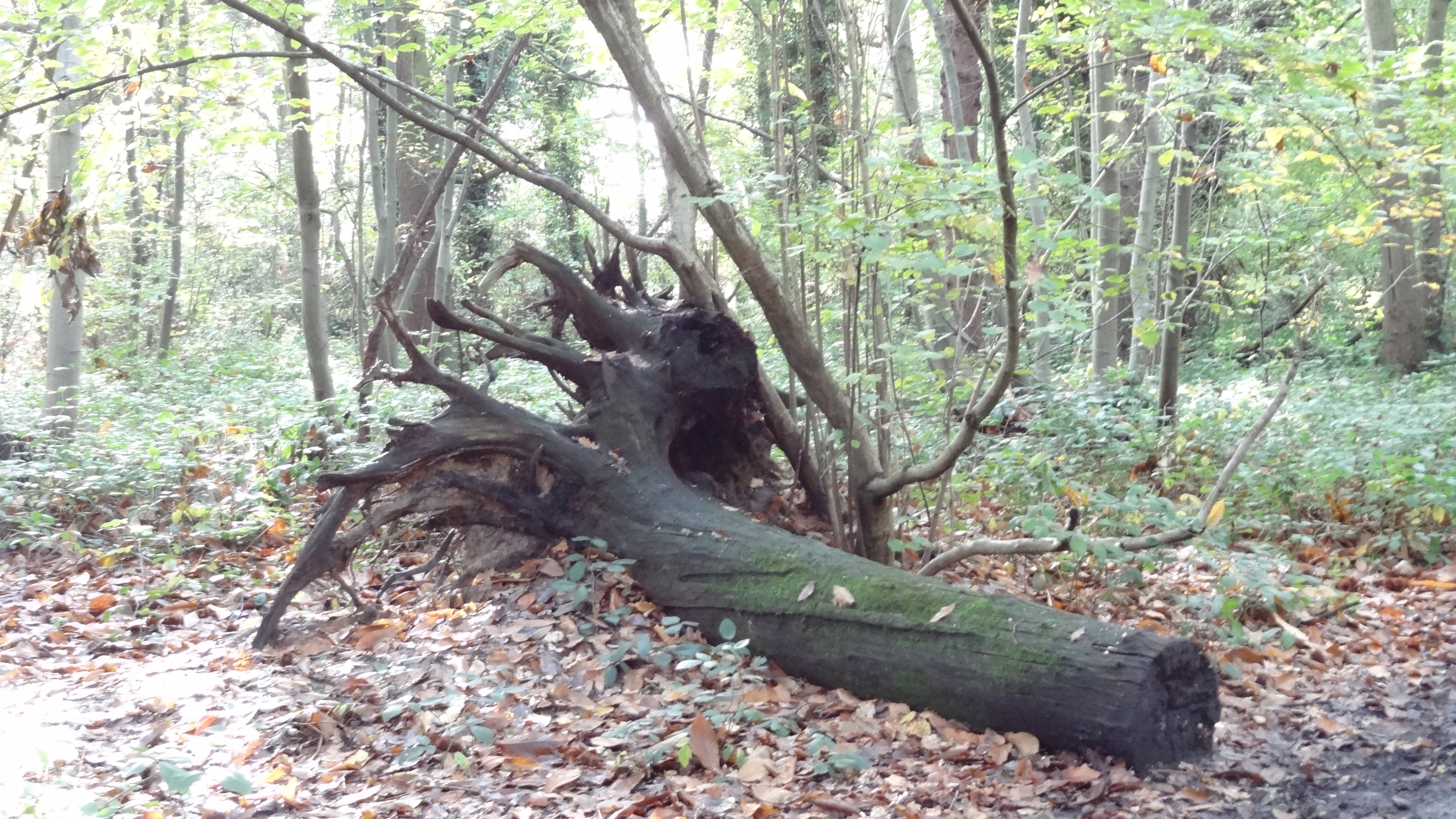 Tree stump in Shepherdleas Wood, Shooters Hill, London